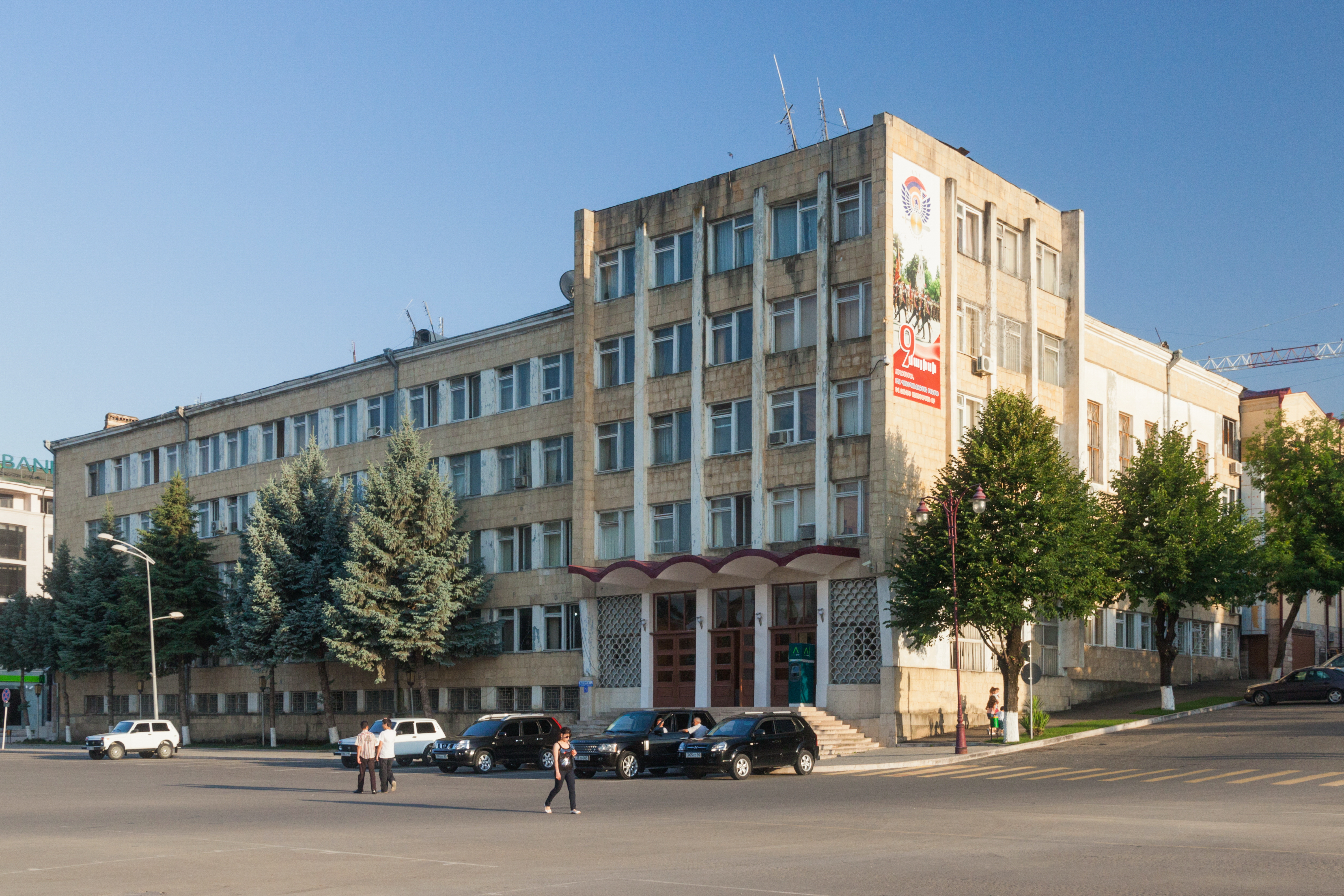 Government building of the Nagorno-Karabakh Republic. Stepanakert/Xankəndi, Nagorno-Karabakh.